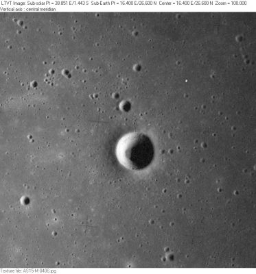 Image AS15-M-0406